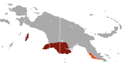 Dusky Pademelon (Thylogale brunii) range (brown — extant, orange — possibly extinct)